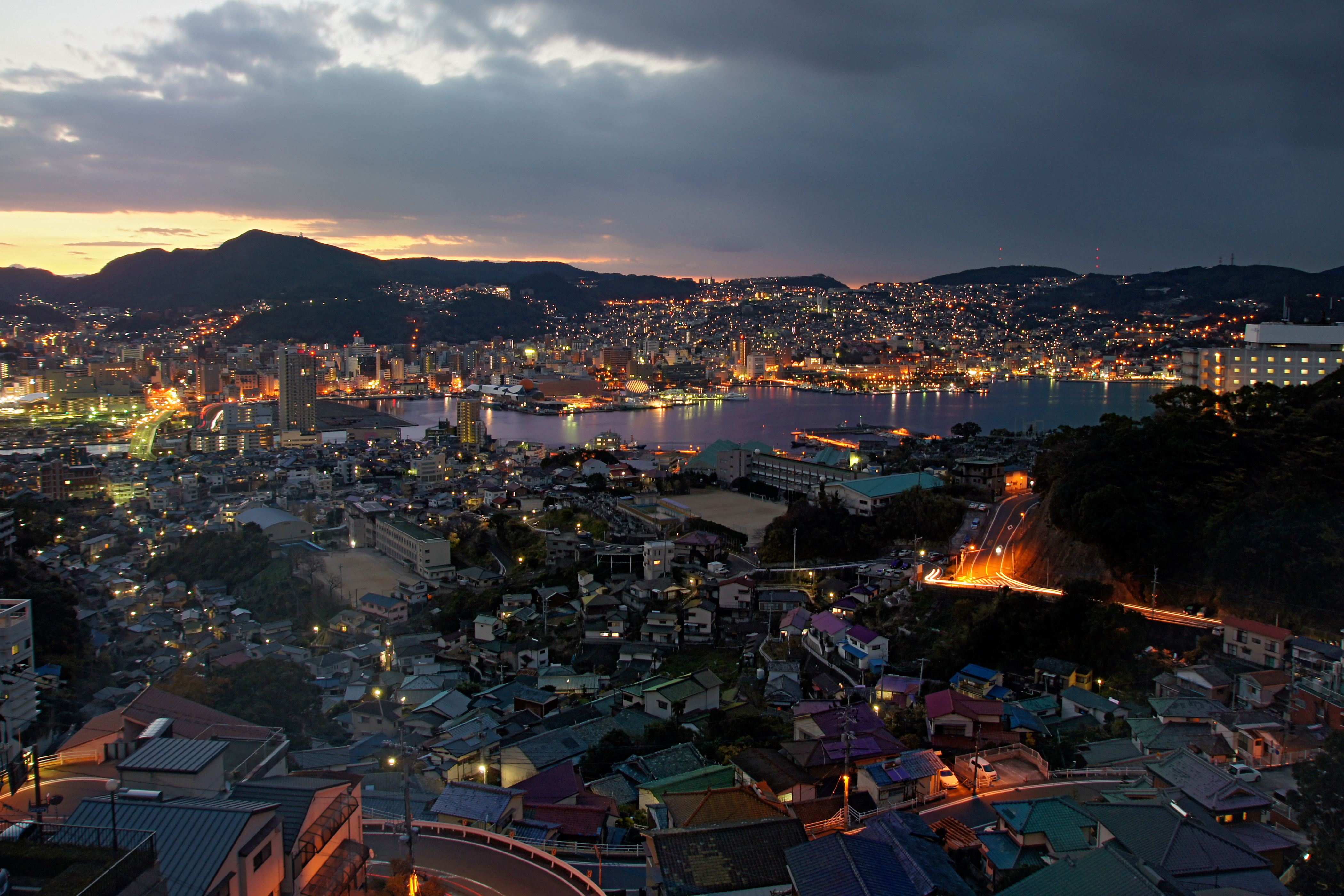 A Nagasaki City view from Mount Inasa, Nagasaki, Nagasaki prefecture, Japan